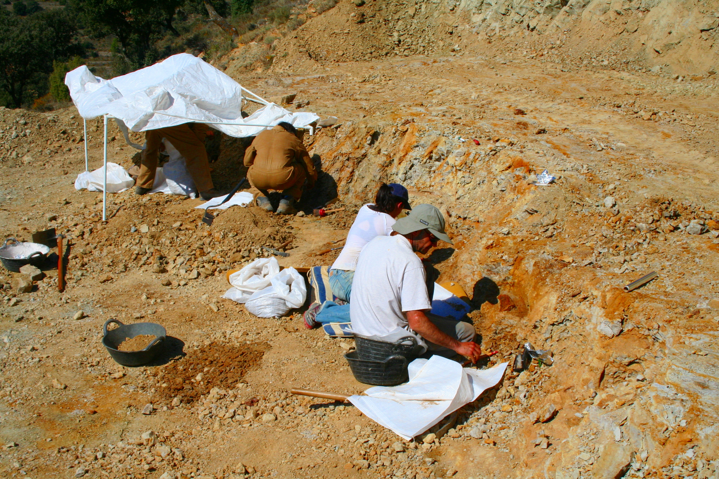 Excavations at the site of Ana, in Castellón, Spain.